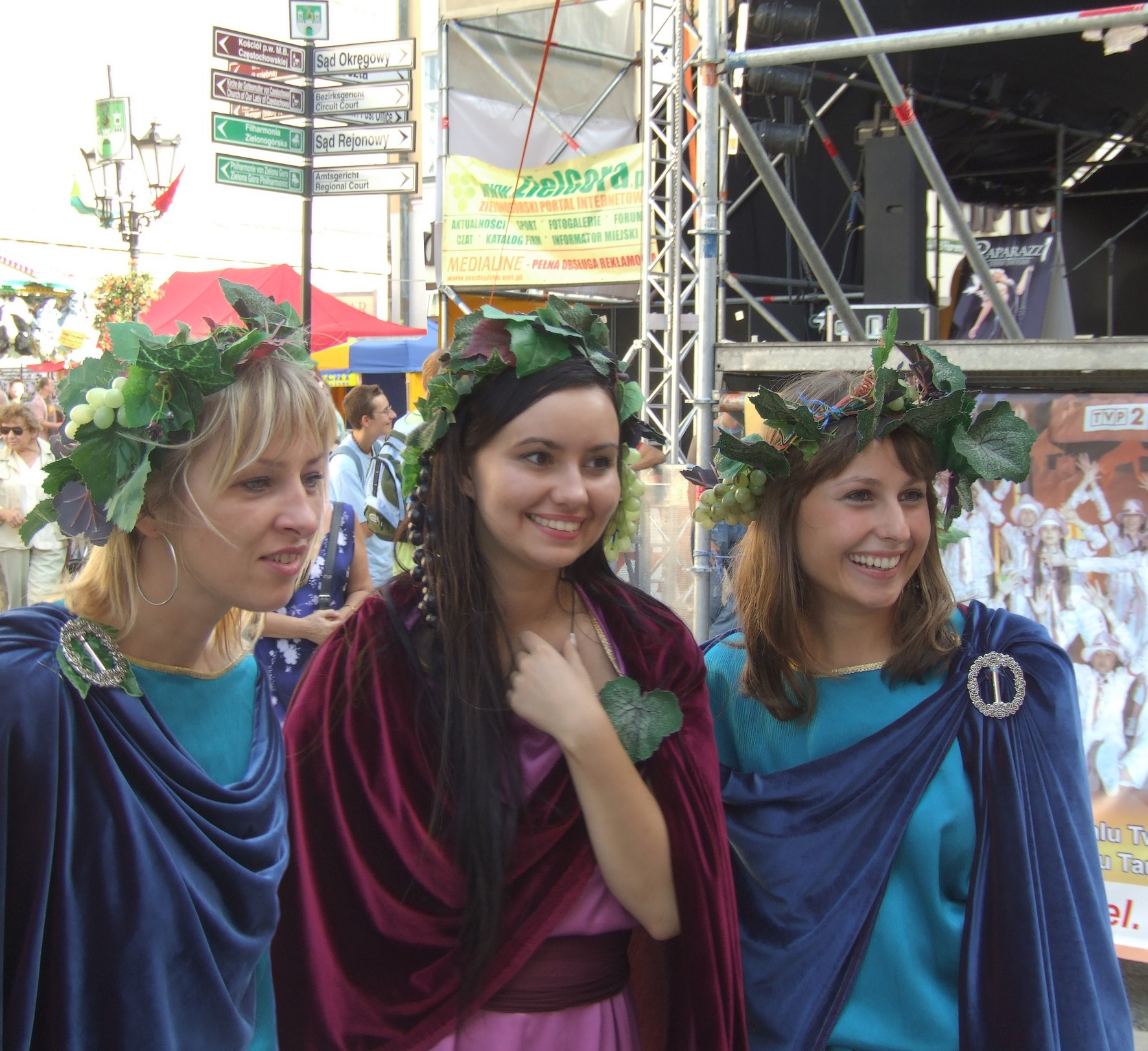 Girls in Maenads' disguise during the Wine Festival in Zielona Góra